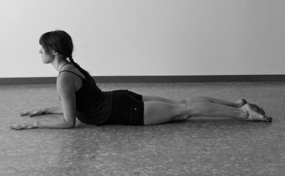 Photo of the Yin Yoga pose, Sphinx, in which the subject lies on her front on the floor, with her back bent backward so that her head is up and she faces forward